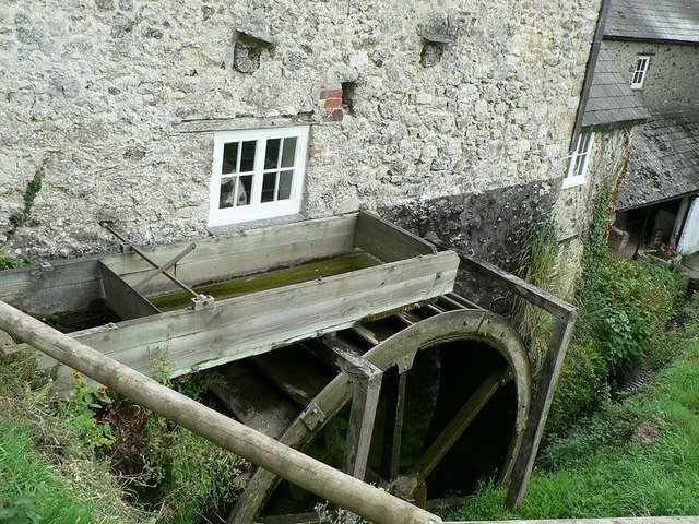 Water Wheel, Manor Mill, Branscombe. This was a water-powered flour mill, which is now owned by the National Trust. It is open on Sundays and occasional Wednesdays.